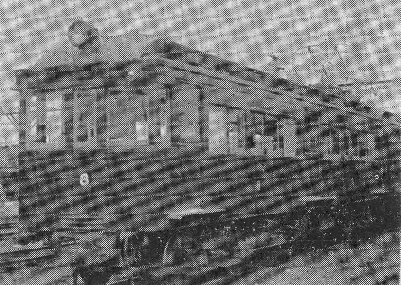 Hankyu 8.